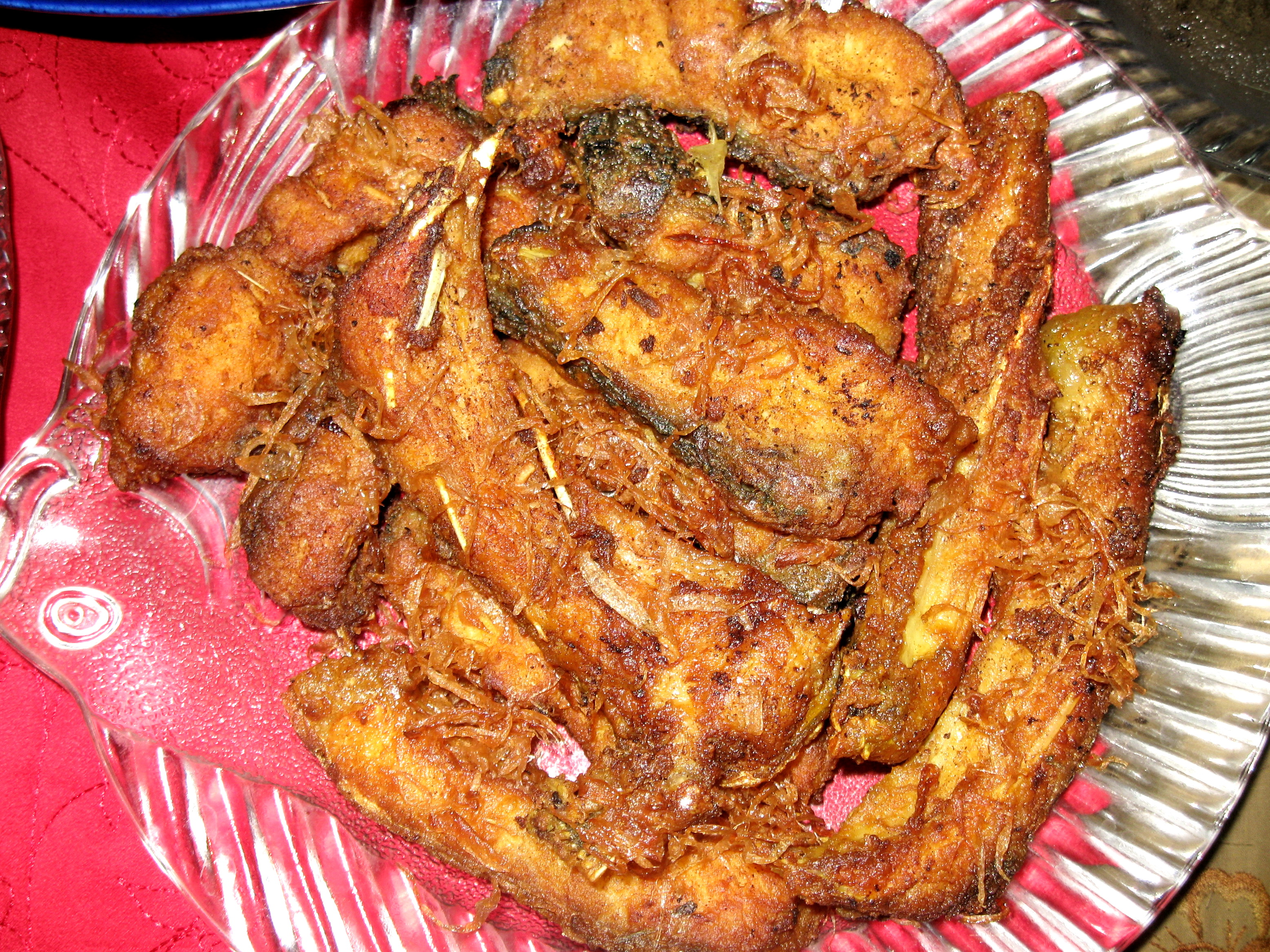 Fried Rohu served in Dhaka, Bangladesh. भोजपुरी: ঢাকায় পরিবেশিত রুই মাছ ভাজা।